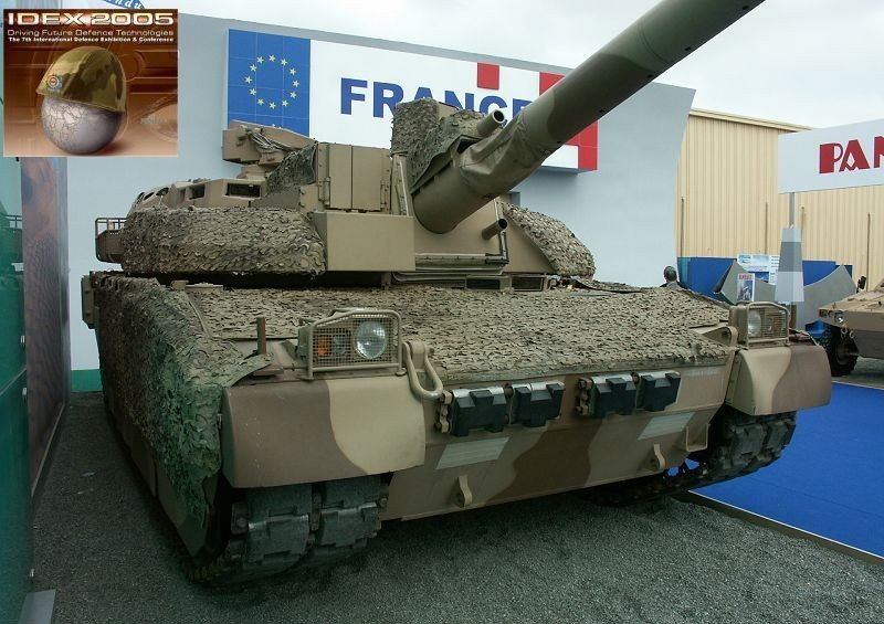 I'm Alain Servaes, Owner of this picture, editor of the Military magazine Army Recognition, i go to lots of countries to make photographs and report about military exercises, defence exhibitions, and more. This picture was taken during the IDEX 2005 defence Exhibition to Abu Dhabi, United Arab Emirates, the most important Defence exhibition in the Middle east. This is a GIAT Leclerc used by the Army Forces of United Arab Emirates.